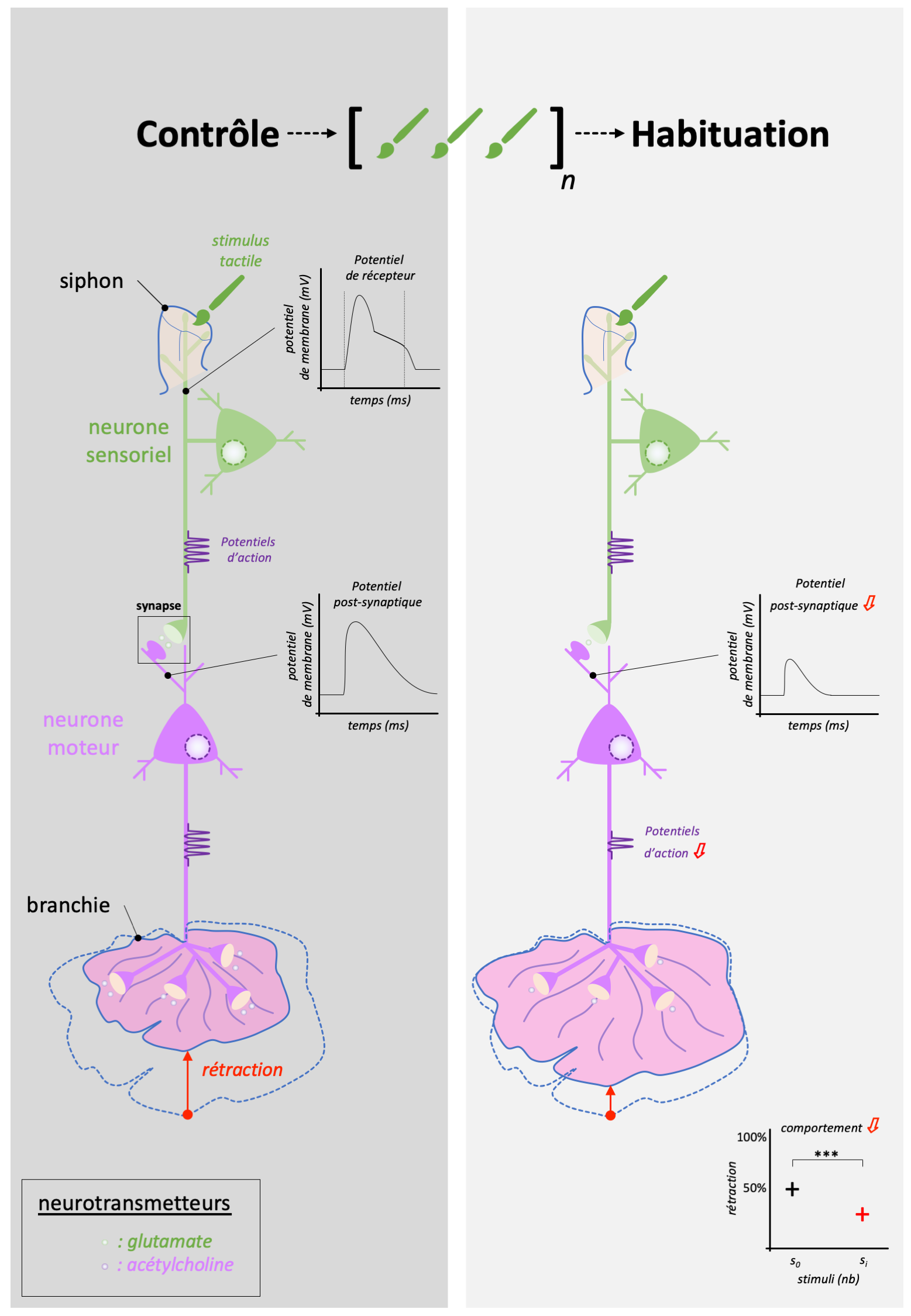 Habituation of the gill-withdrawal reflex in Aplysia californica. This work is adapted from E. Kandel's 2001 paper in Science (PMID:11691980).